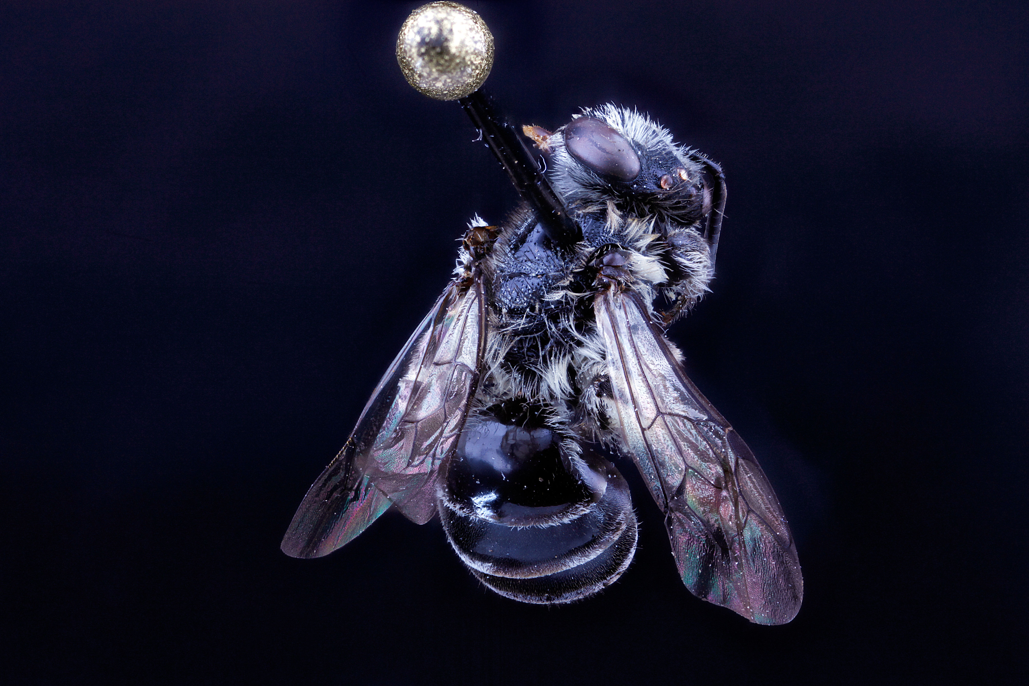 South Carolina